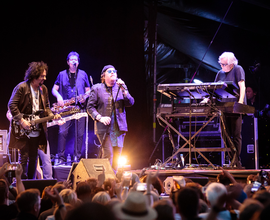 Toto at the stage of Kirketorget. The concert was part of Kongsberg Jazzfestival and took place on 08. July 2017.